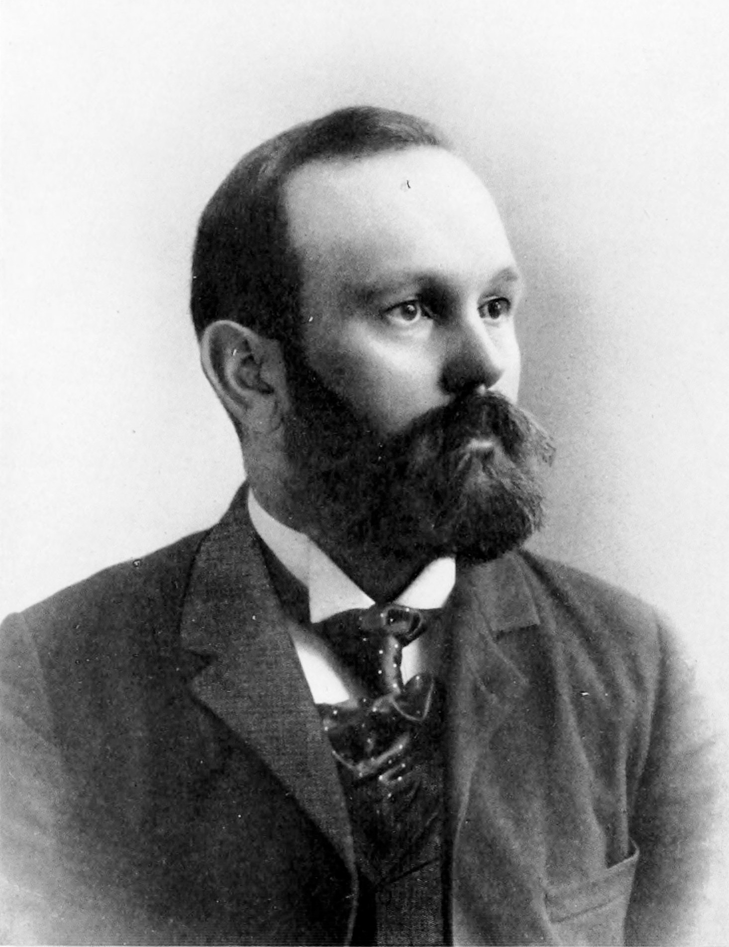 Joseph Johnson Hart (Pennsylvania Congressman)